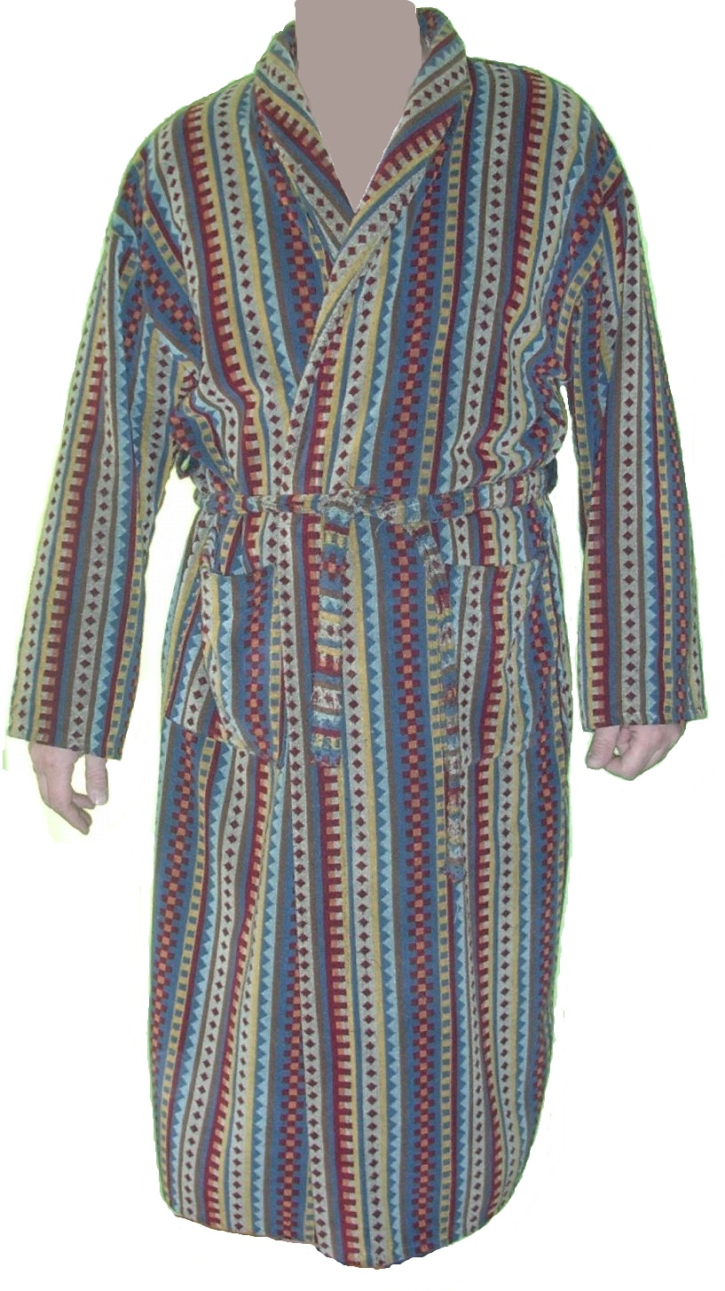 dressing gown for men